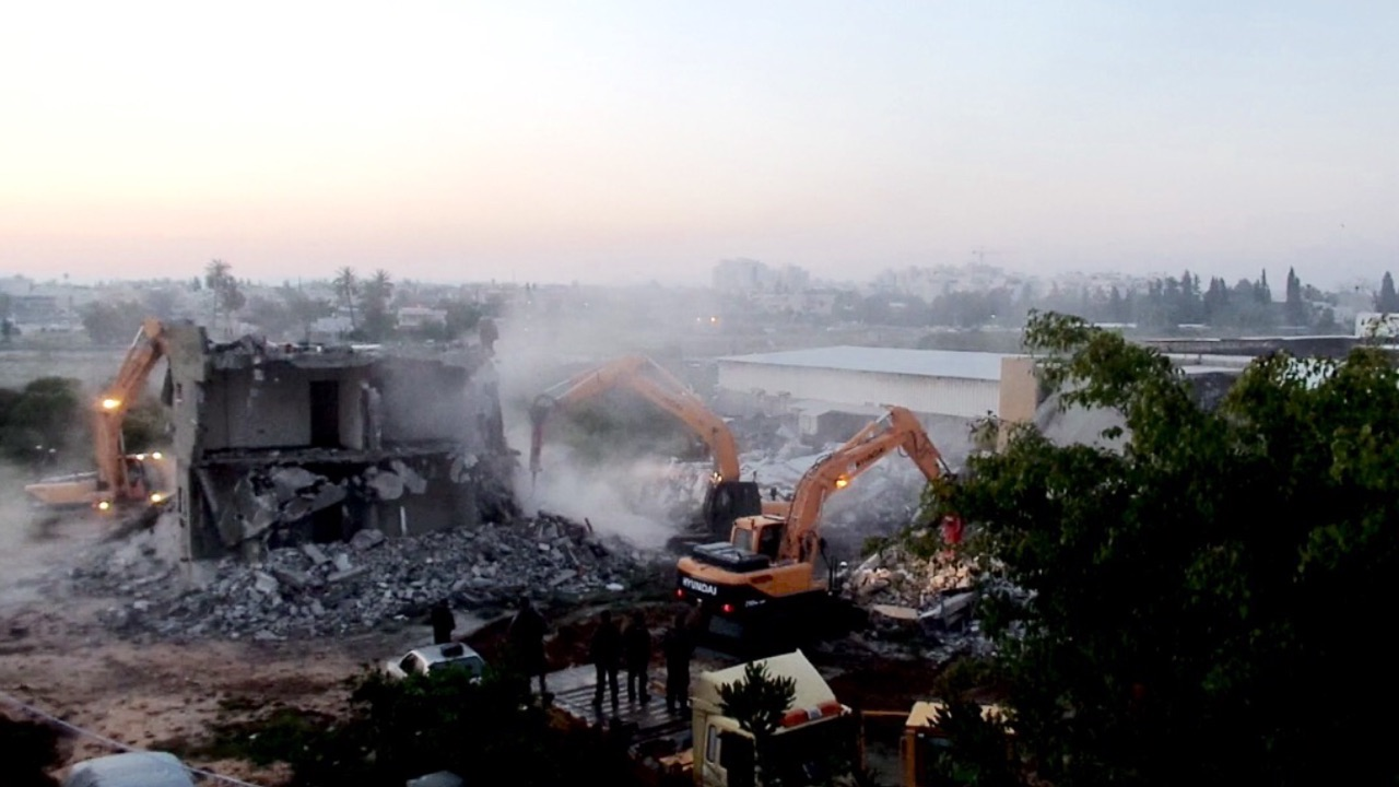 House demolition in Dahamash May 2015